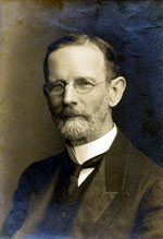 Walter Russell Lambuth (1854-1921)